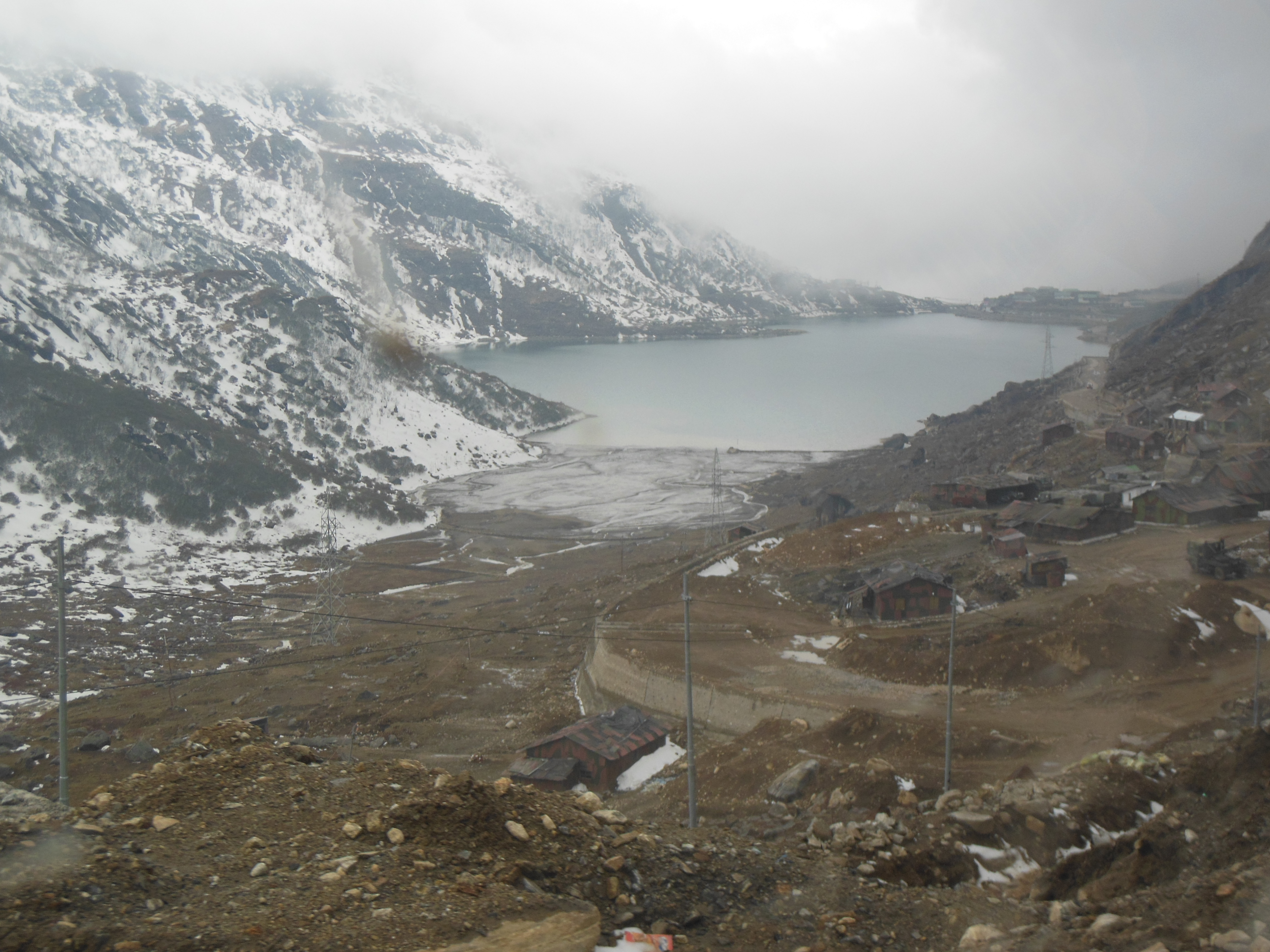 On way to Nathu La you can see many such beautiful lakes